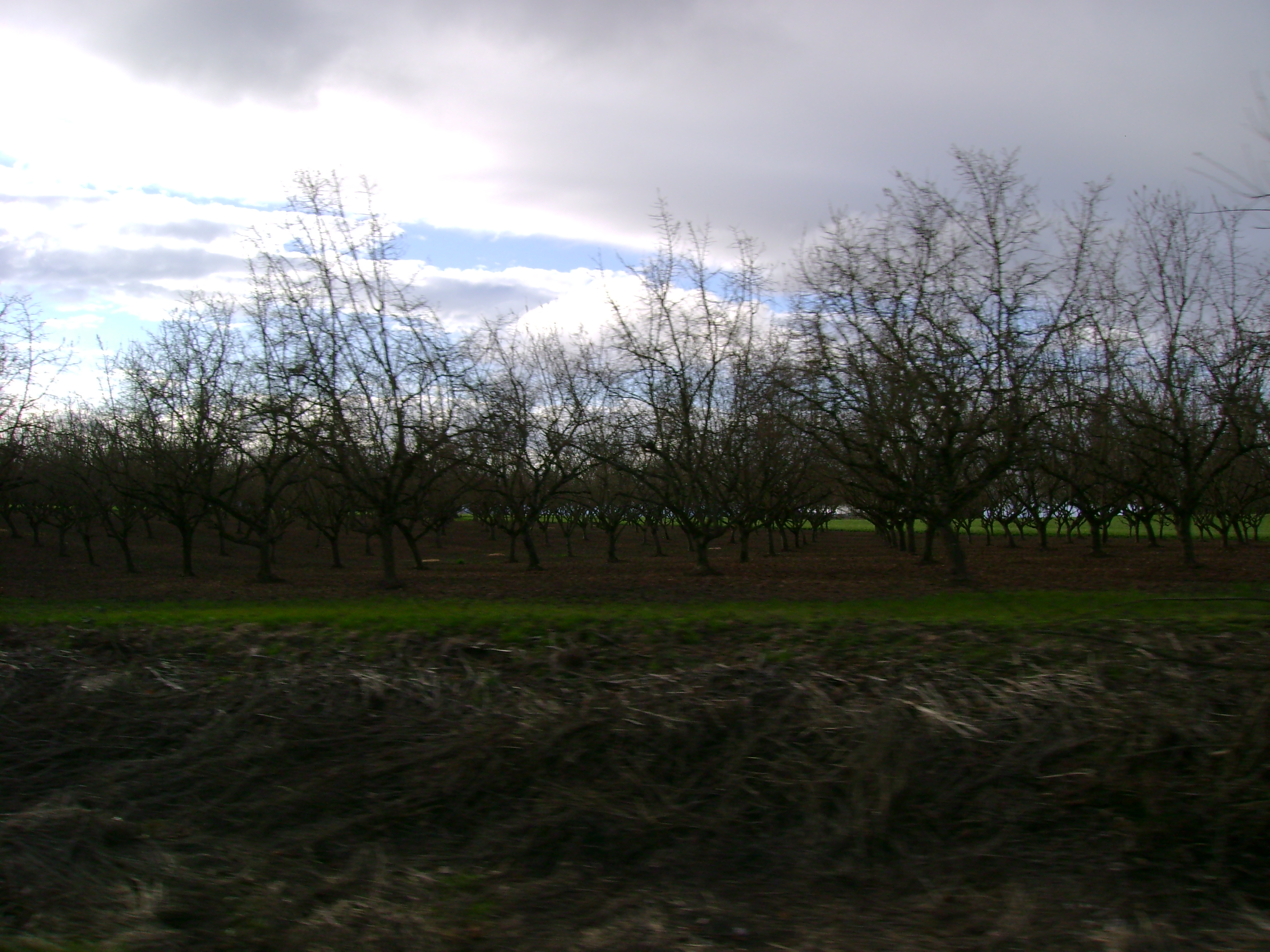 Trees in McMinnville